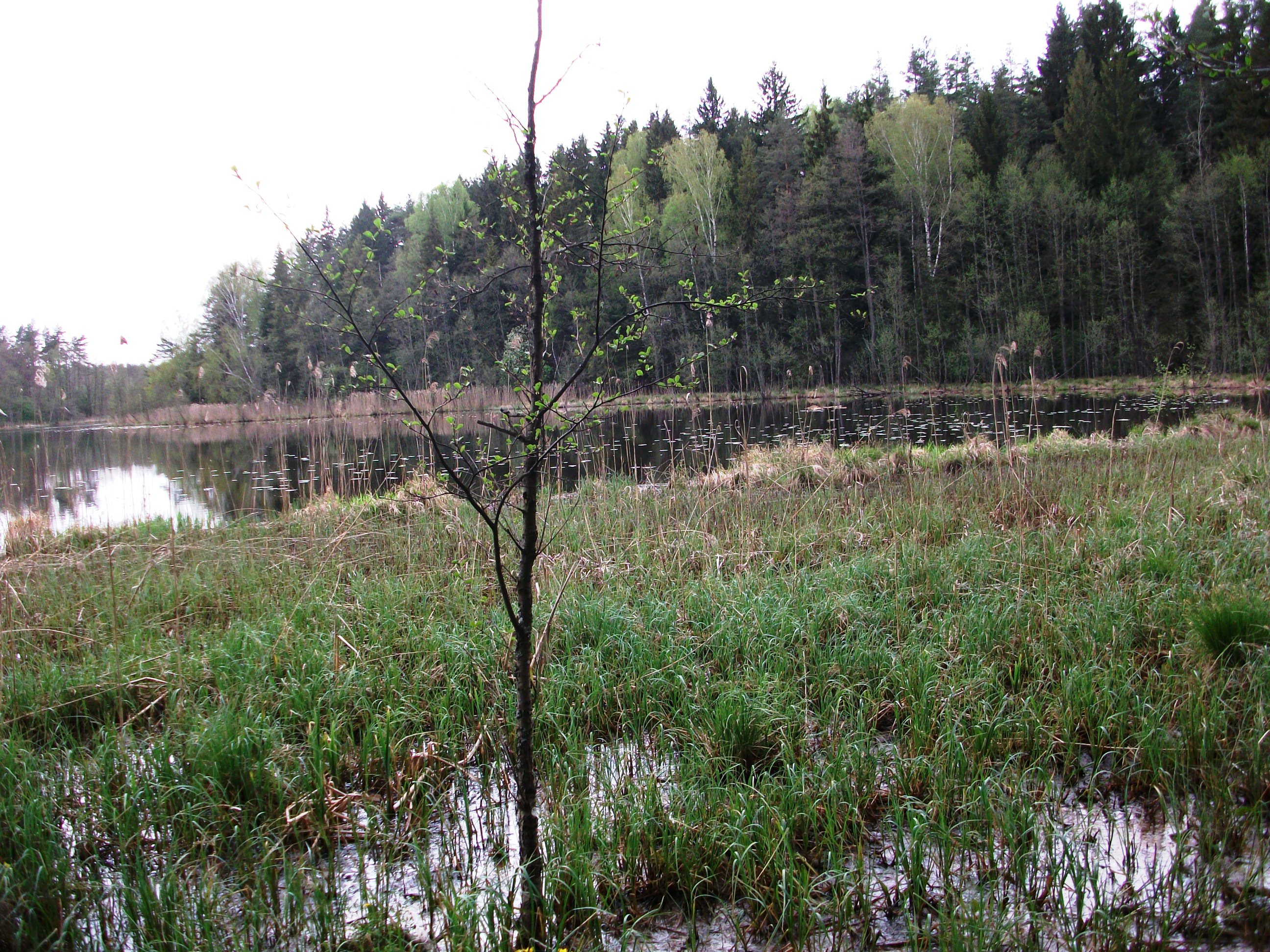 Klevel Lake, Astraviec district, Belarus